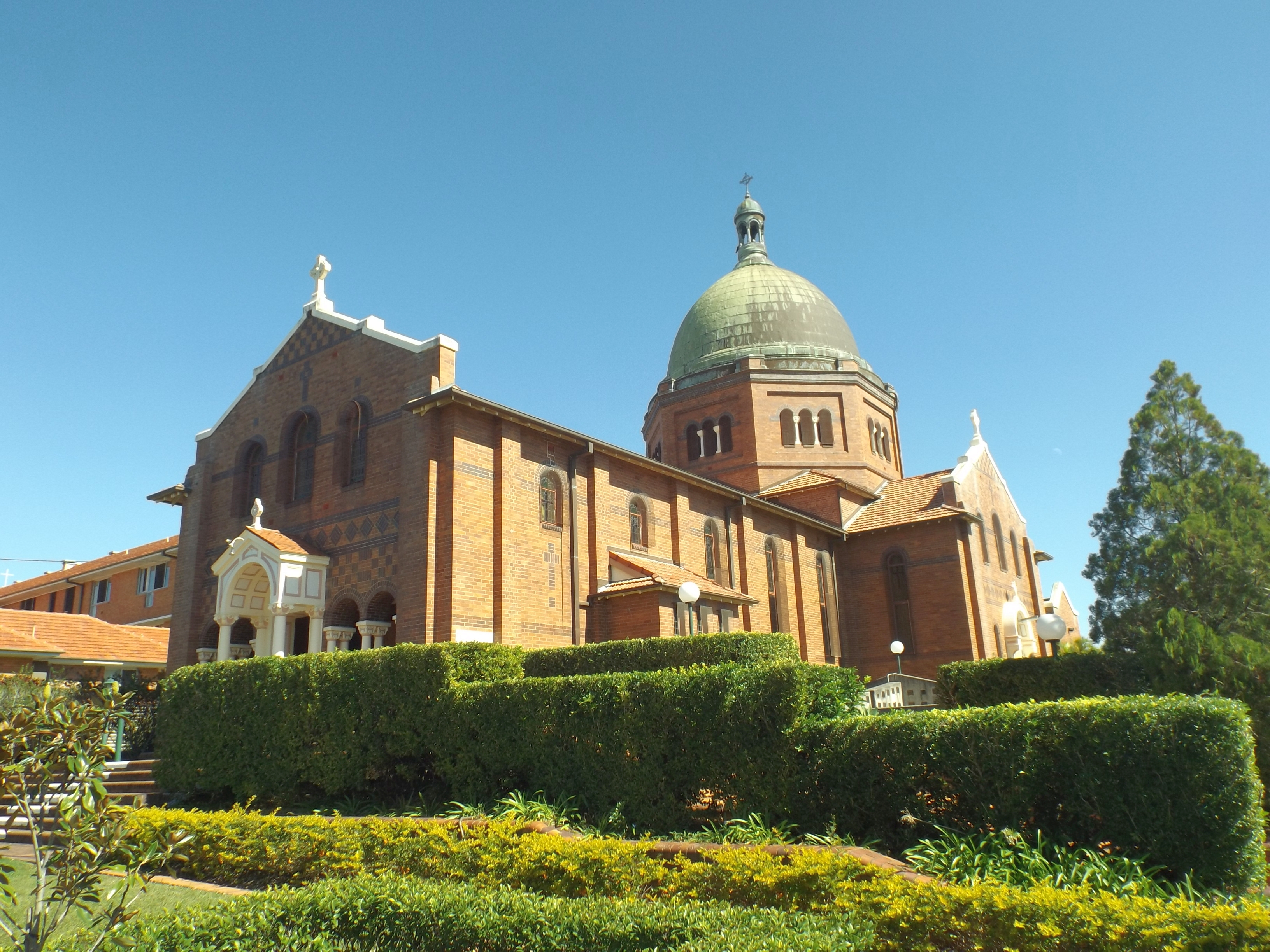 Photo of the Corpus Christi Church at Nundah, Brisbane, Queensland, Australia.